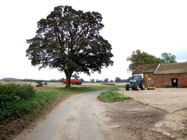 Farmyard, Somersby A sign of recent activity.